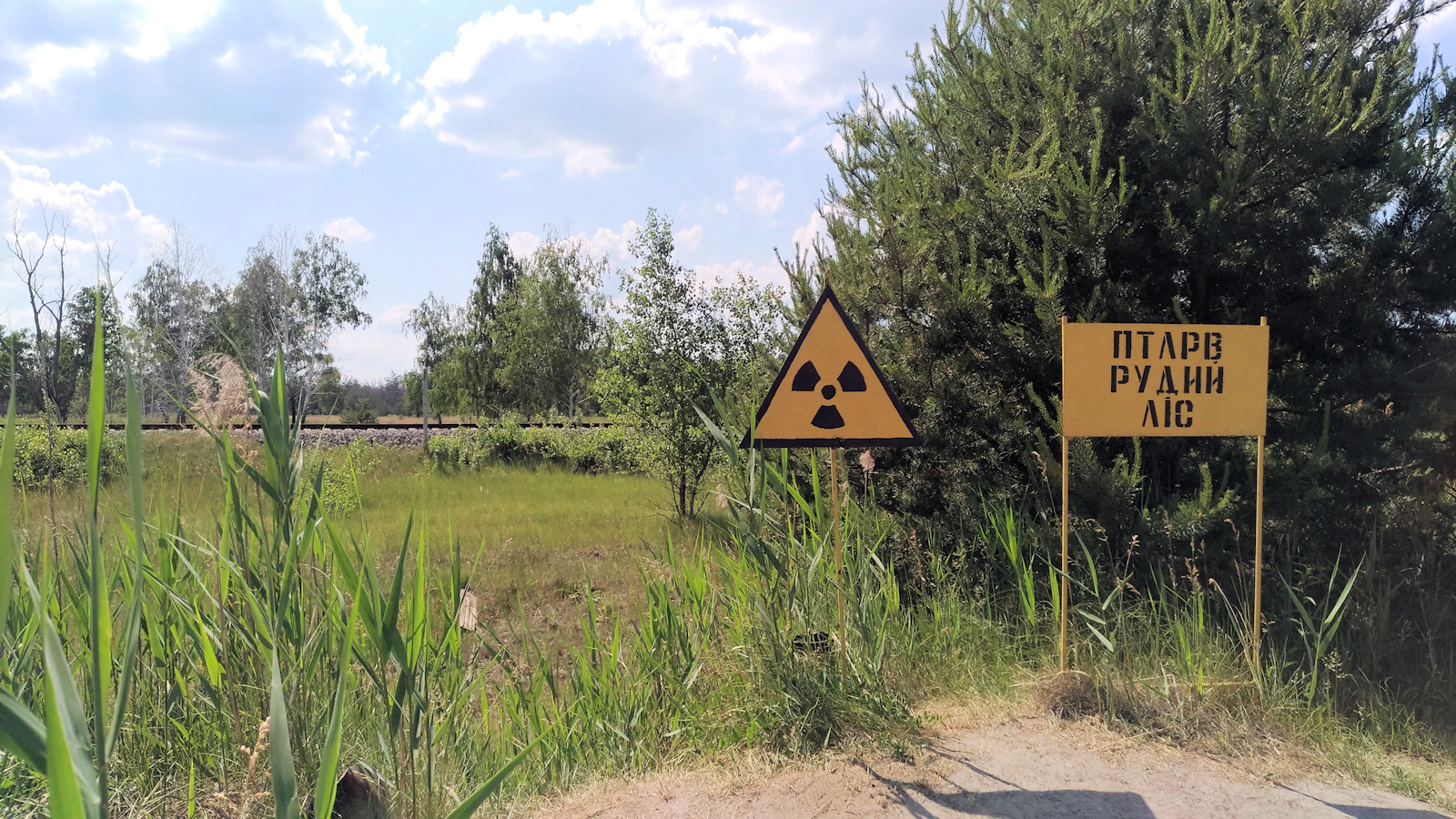 Former "Red Forest" near Pripyat, June 2019